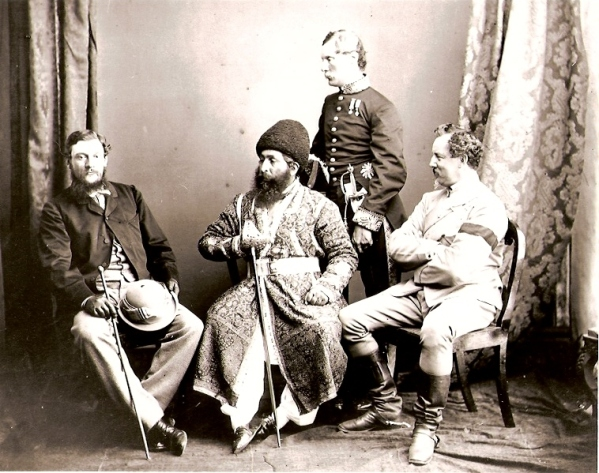 Fort Jamrud during the return from the Durbar at Umballa in March 1869. Amir Sher Ali Khan in centre with Colonel Frederick Pollock standing, Colonel Crawford Trotter Chamberlain sitting on the right and to the left, Henry Walter Bellew, Indian Medical Service, acting as interpreter.